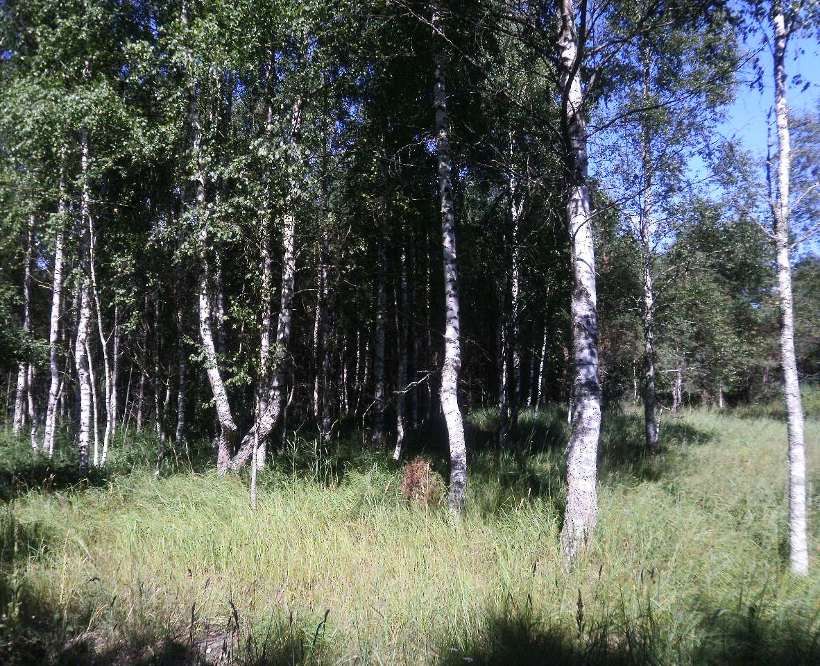 Mändjala forest in Saaremaa island, Estonia.